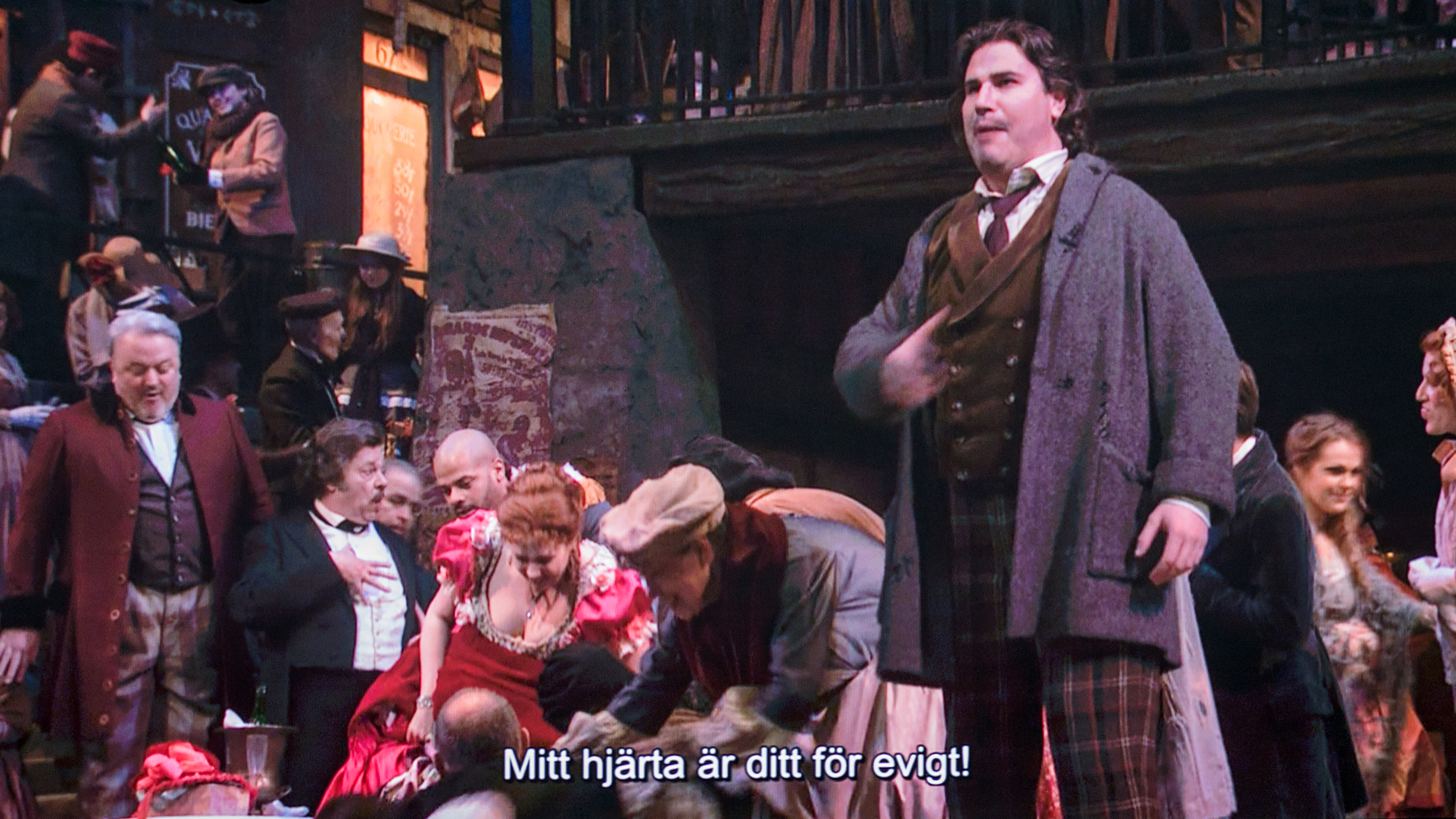 La Bohème from the Metropolitan Opera April 2014